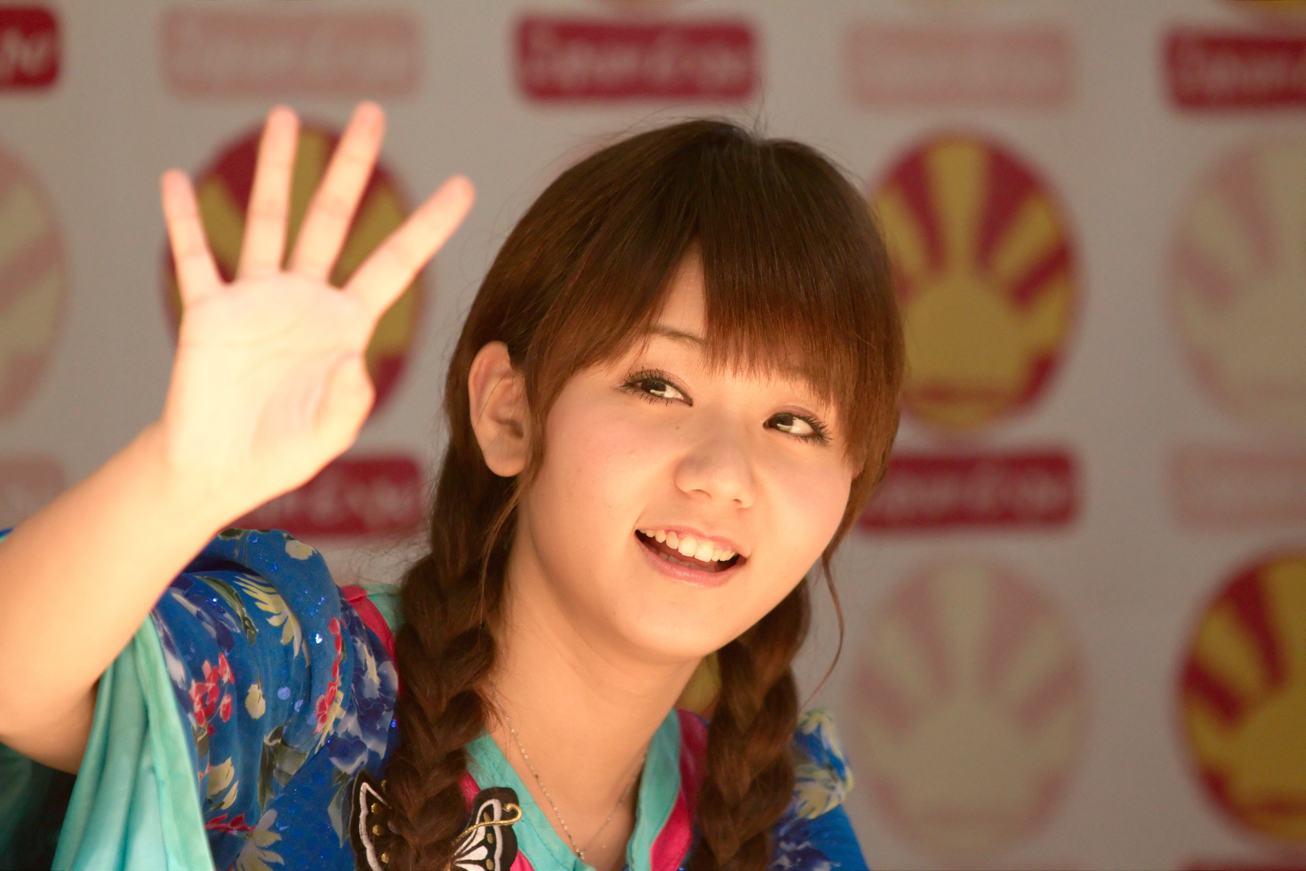 Jun Jun of Morning Musume during autograph session at Japan Expo, Sunday, July 03, 2010 (Paris, France).